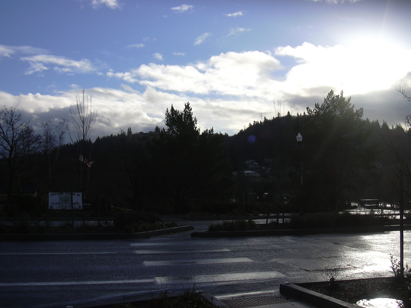 Gresham Butte from downtown Gresham